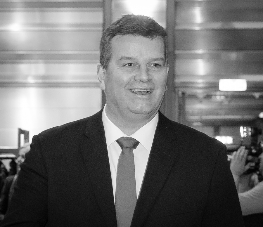 Hans-Christian Gabrielsen, guest at Governor Øystein Olsen's annual address in February 2018